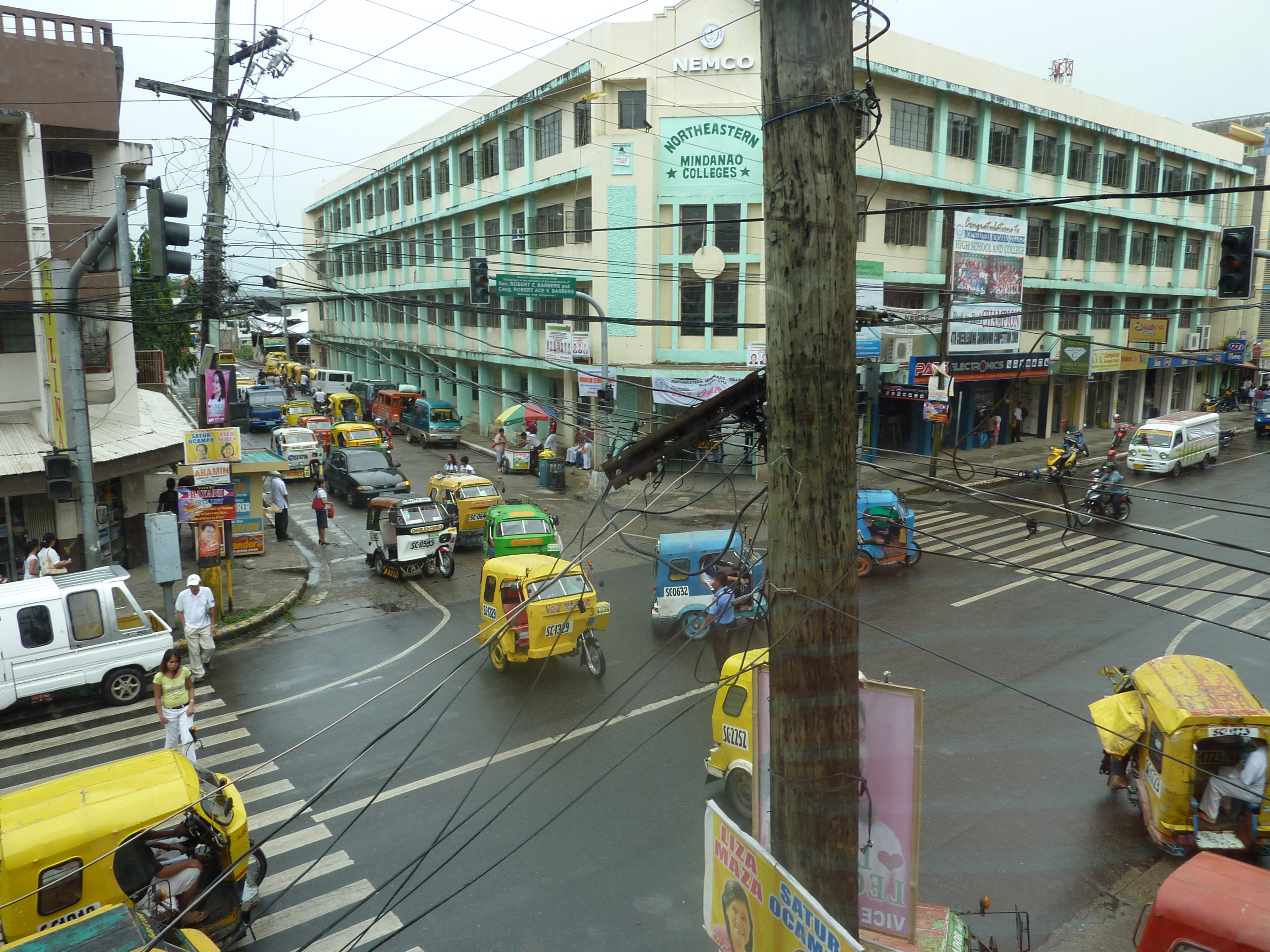 Surigao City, Surigao del Norte, Philippines. Intersection of Rizal and Amat Streets showing the Northeastern Mindanao Colleges building.